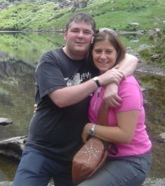 Darren Shan and Helen Basini in Killarney, Ireland, in the summer of 2005.